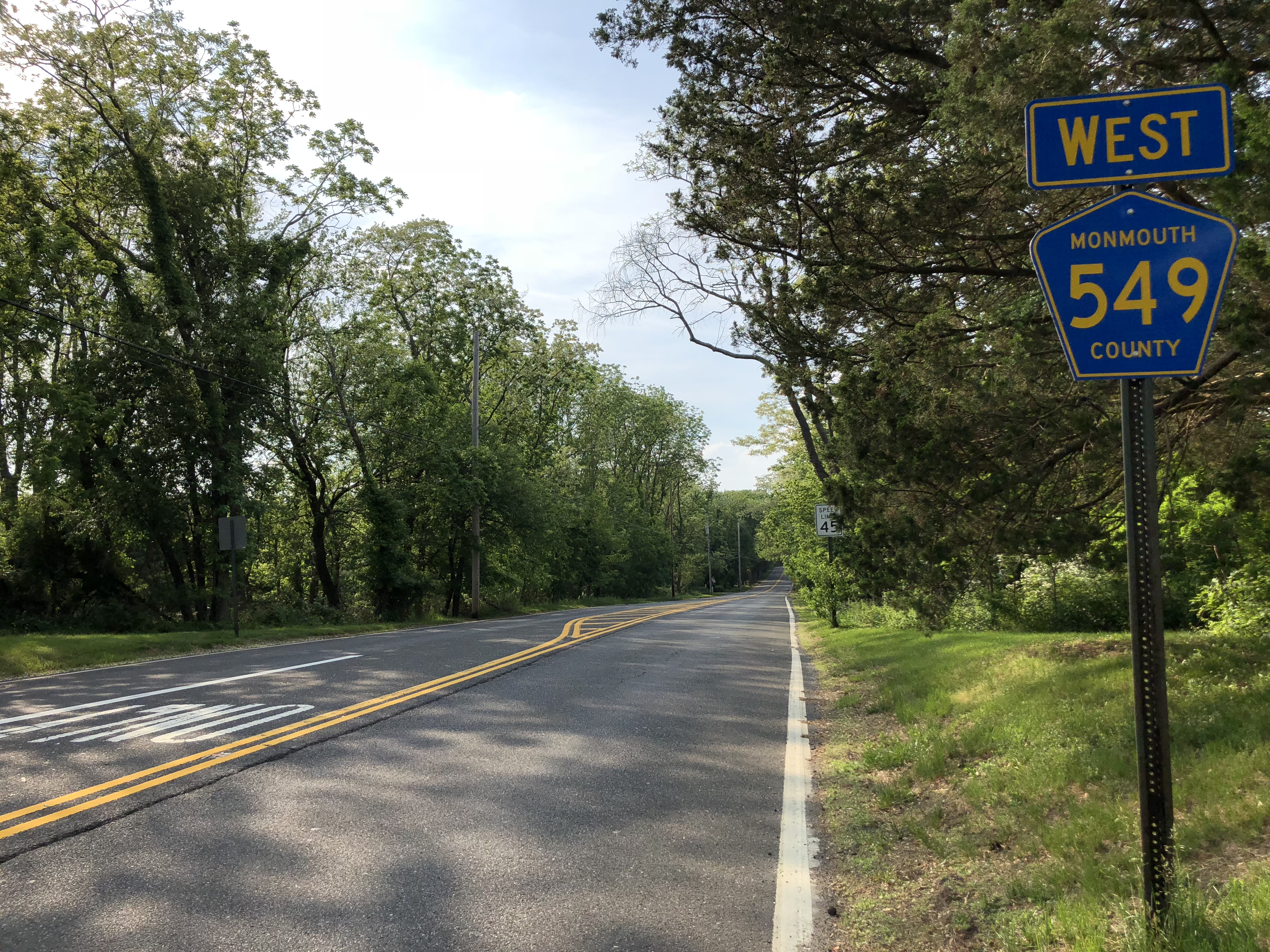 View west along Monmouth County Route 549 (Herbertsville Road) at Allenwood-Lakewood Road in Wall Township, Monmouth County, New Jersey